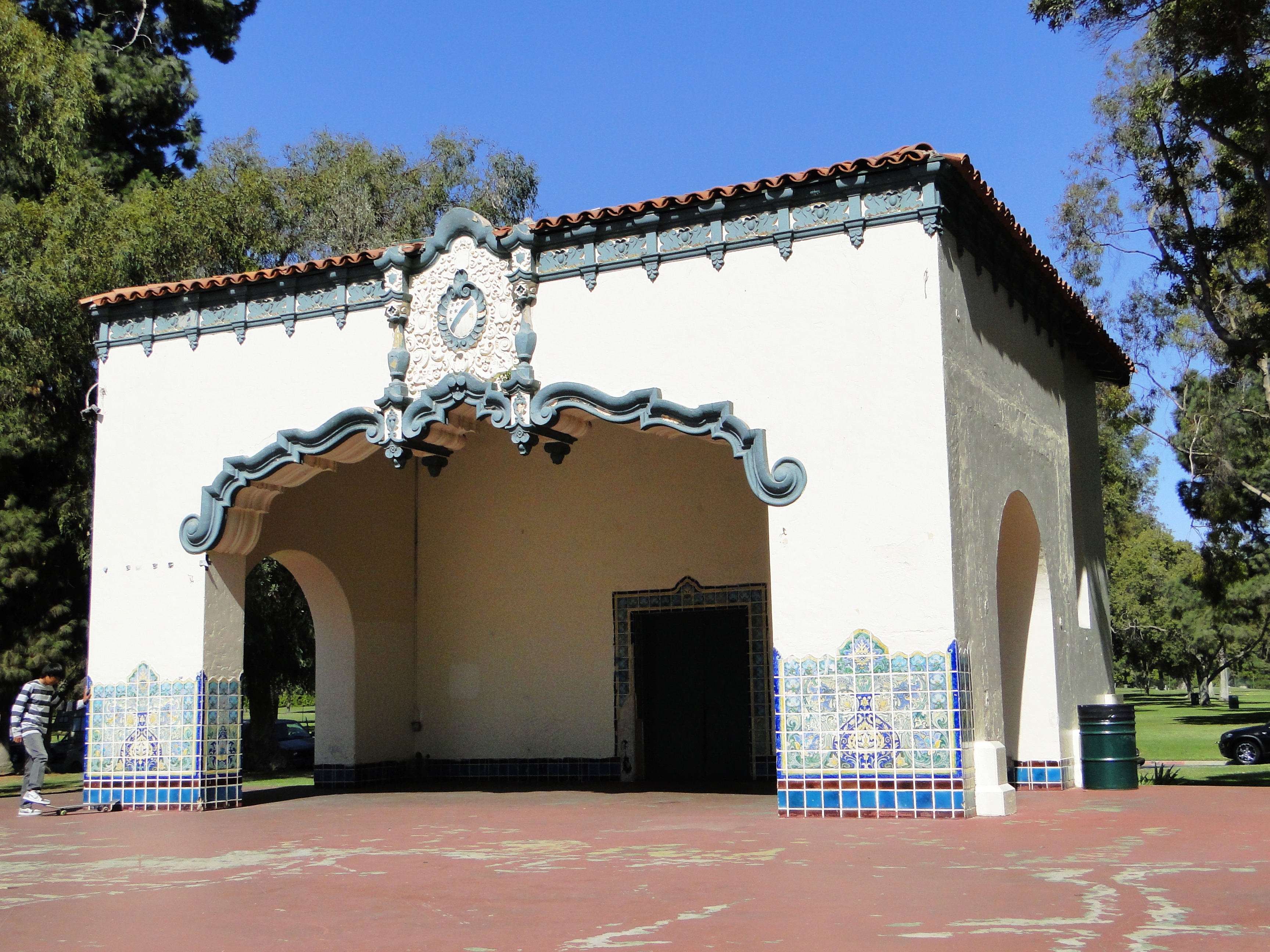 Recreation Park bandshell, Recreaton Park, Long Beach, California, Long Beach Historic Landmark # 16.52.740